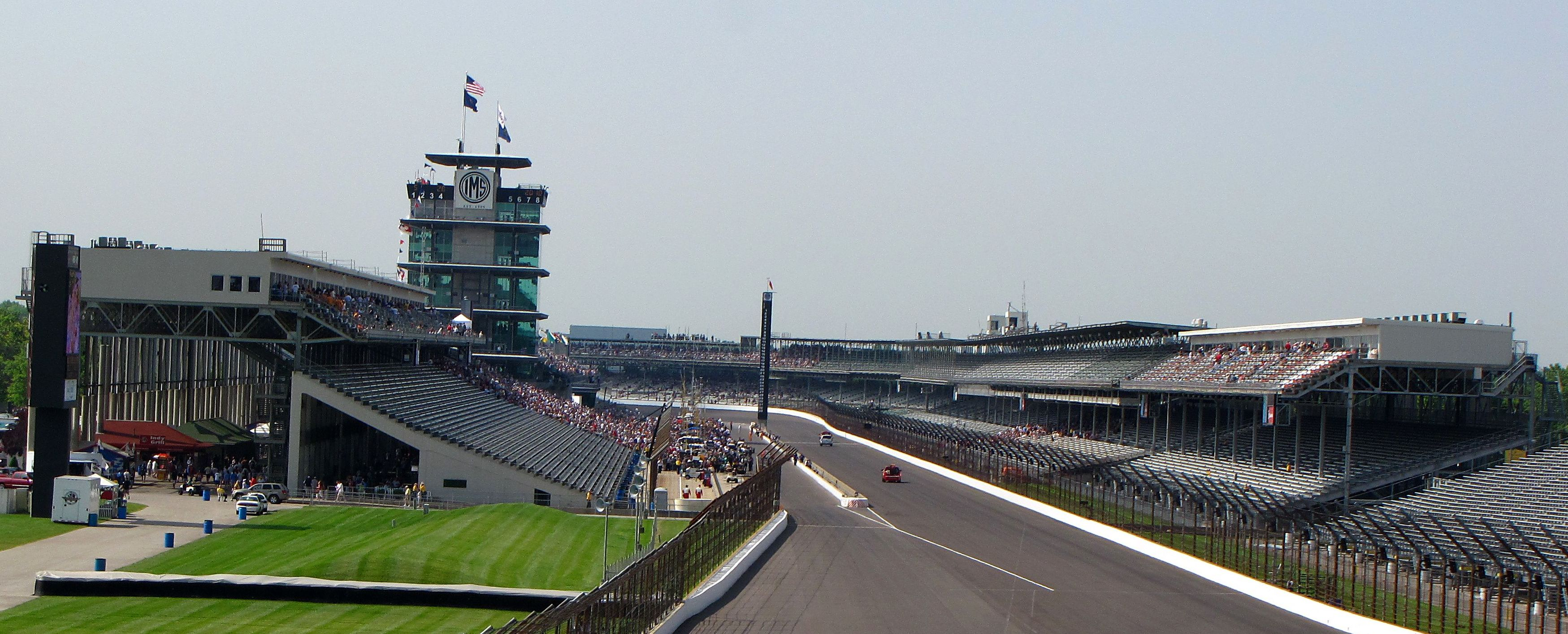 2010 Carb Day